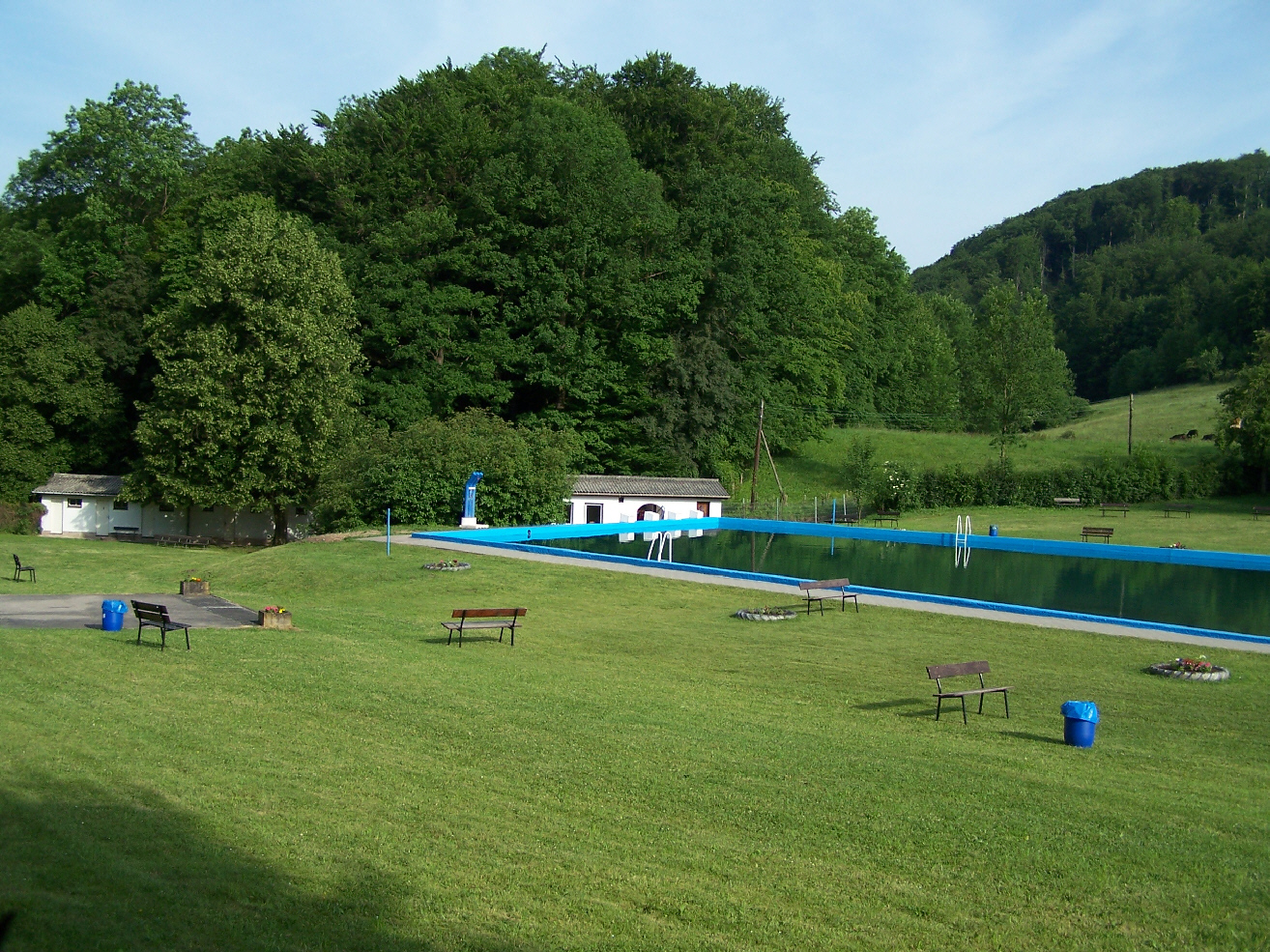 The spa in the Ritzhausen dell.